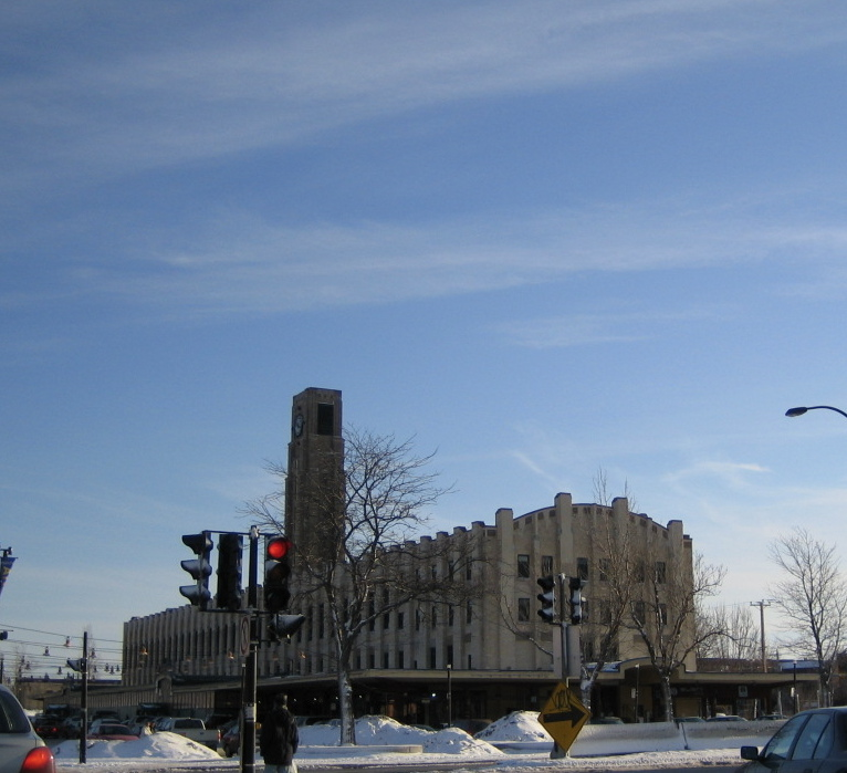 Atwater market, Montréal, Quebec, Canada